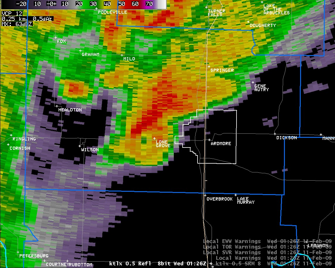 Radar image of the Lone Grove supercell